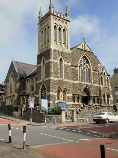 Holy Trinity Presbyterian Church, Barry. Located on the corner of Trinity Street and St Paul's Avenue, viewed from the eastern edge of High Street. The first services were held in June 1895.